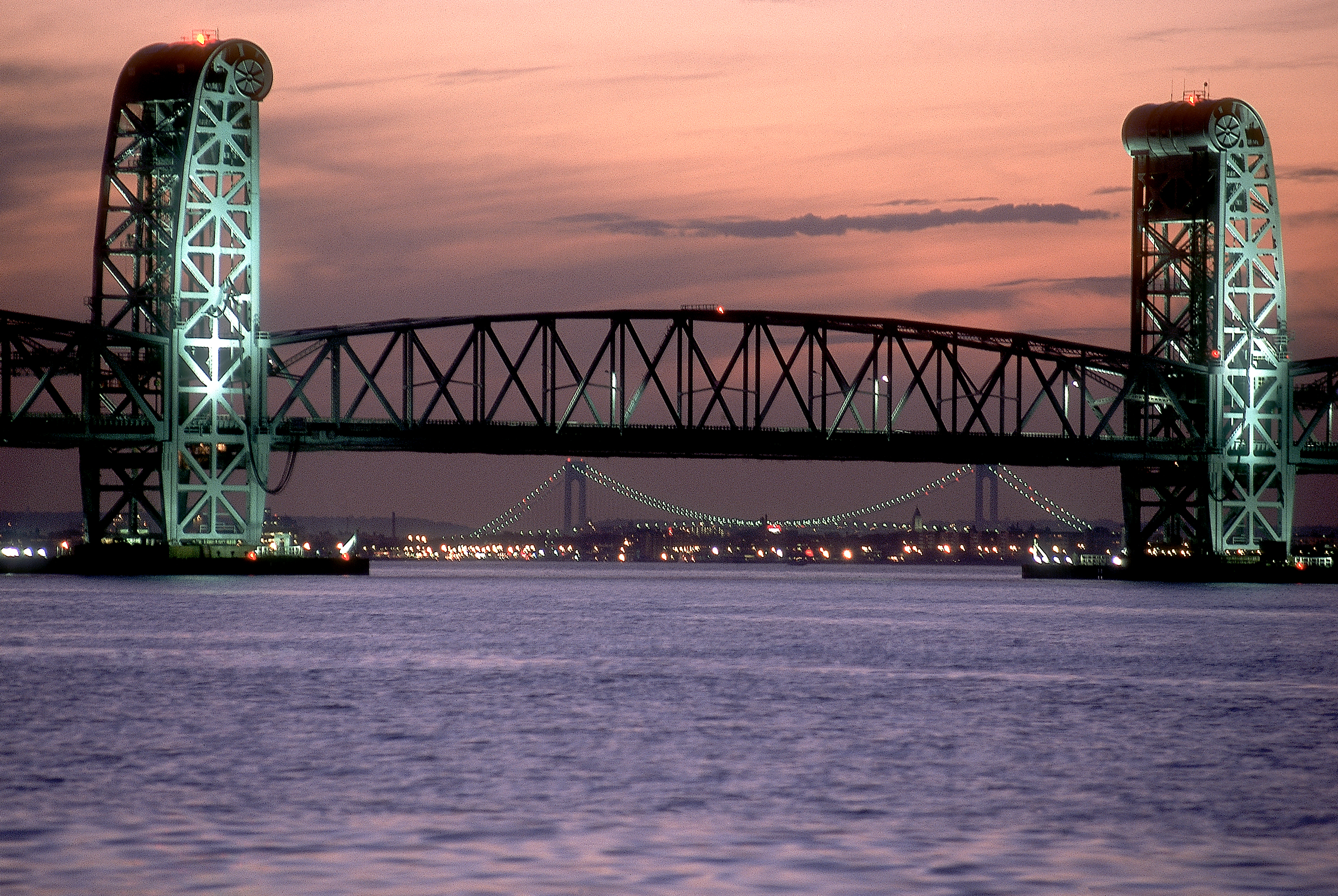 Photo: Metropolitan Transportation Authority / Patrick Cashin.